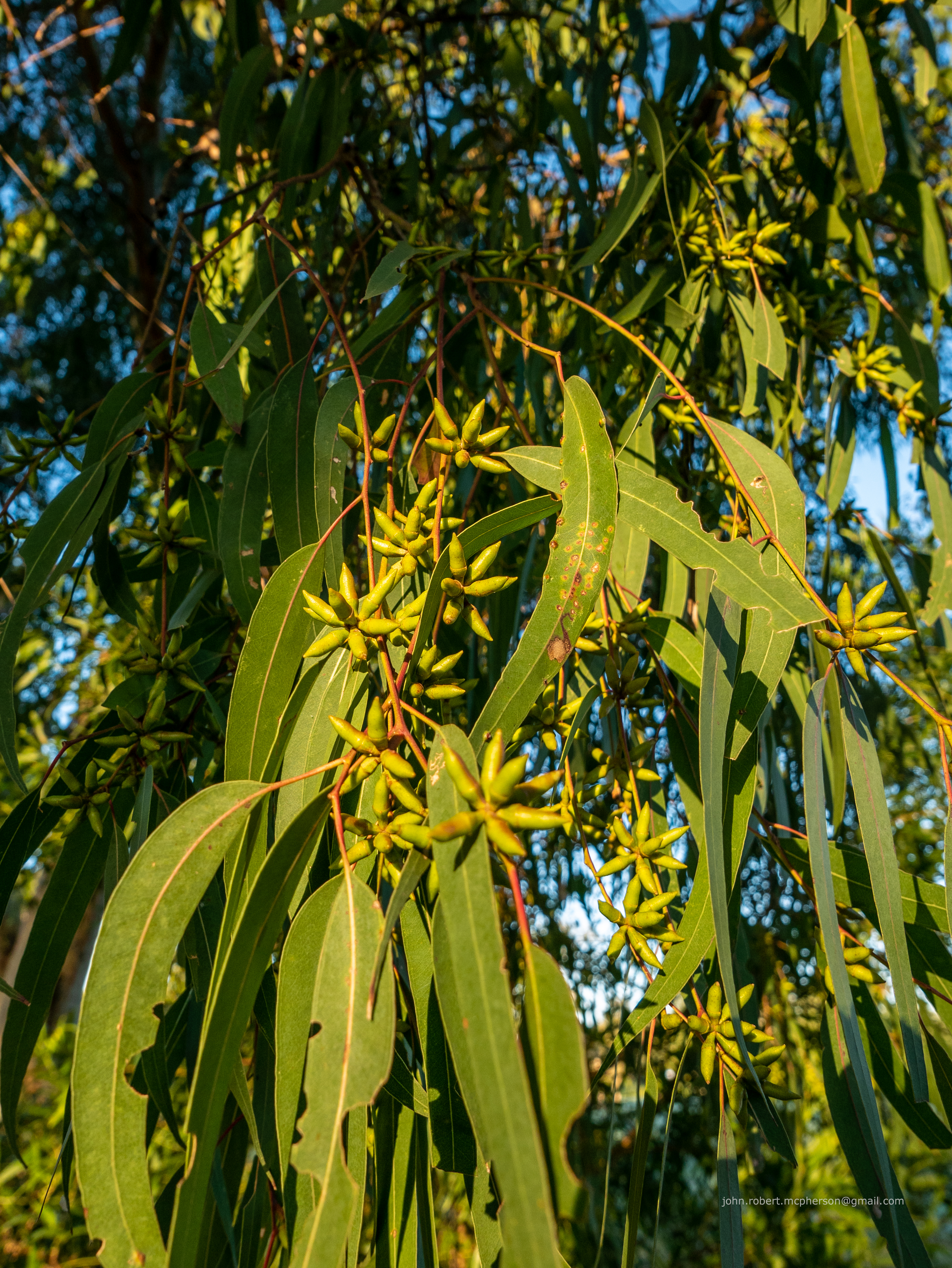 Eucalyptus seeana, the narrow-leaved red gum, is a common autochthonous tree in 7th Brigade Park. It is of small to medium size, favouring slopes over floodplain. Bark is shed in short strips. E. seeana flowers regularly and heavily through November in 7th Brigade Park, and provides a valuable nectar resource for birds, mammals and insects.